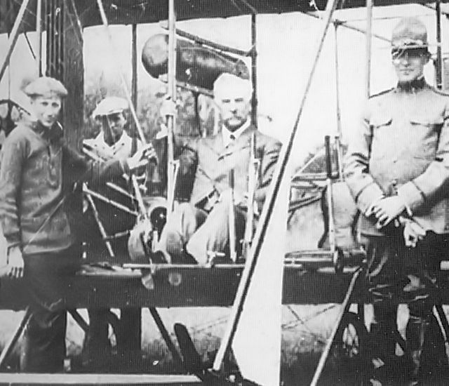 Vermont Governor Charles W Gates examines a Vermont National Guard airplane in 1915. At his left is VT Adjutant General BG Lee S Tillotion